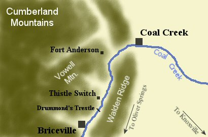 Map showing key locations of the Coal Creek War in the Coal Creek area of western Anderson County, Tennessee. The Coal Creek War was a coal miners' uprising in the early 1890s. Most of the events took place in the vicinity of Coal Creek (modern Lake City) and Briceville. "Thistle Switch" — where Tennessee governor John P. Buchanan debated with labor organizer Eugene Merrill — was located at a point where Thistle Hollow joins the Coal Creek Valley (before the Great Depression, a separate set of tracks connected the main railroad tracks with the Thistle Mine further up the hollow). Drummond's Trestle still stands where the main tracks cross Coal Creek (coord. 36.18822, -84.18304). Fort Anderson was located atop "Militia Hill" (the hill still appears on USGS topographical maps), which was a ridge flanking eastward off Vowell Mountain. Note: Map NOT drawn to scale, but based loosely on USGS topographical map.